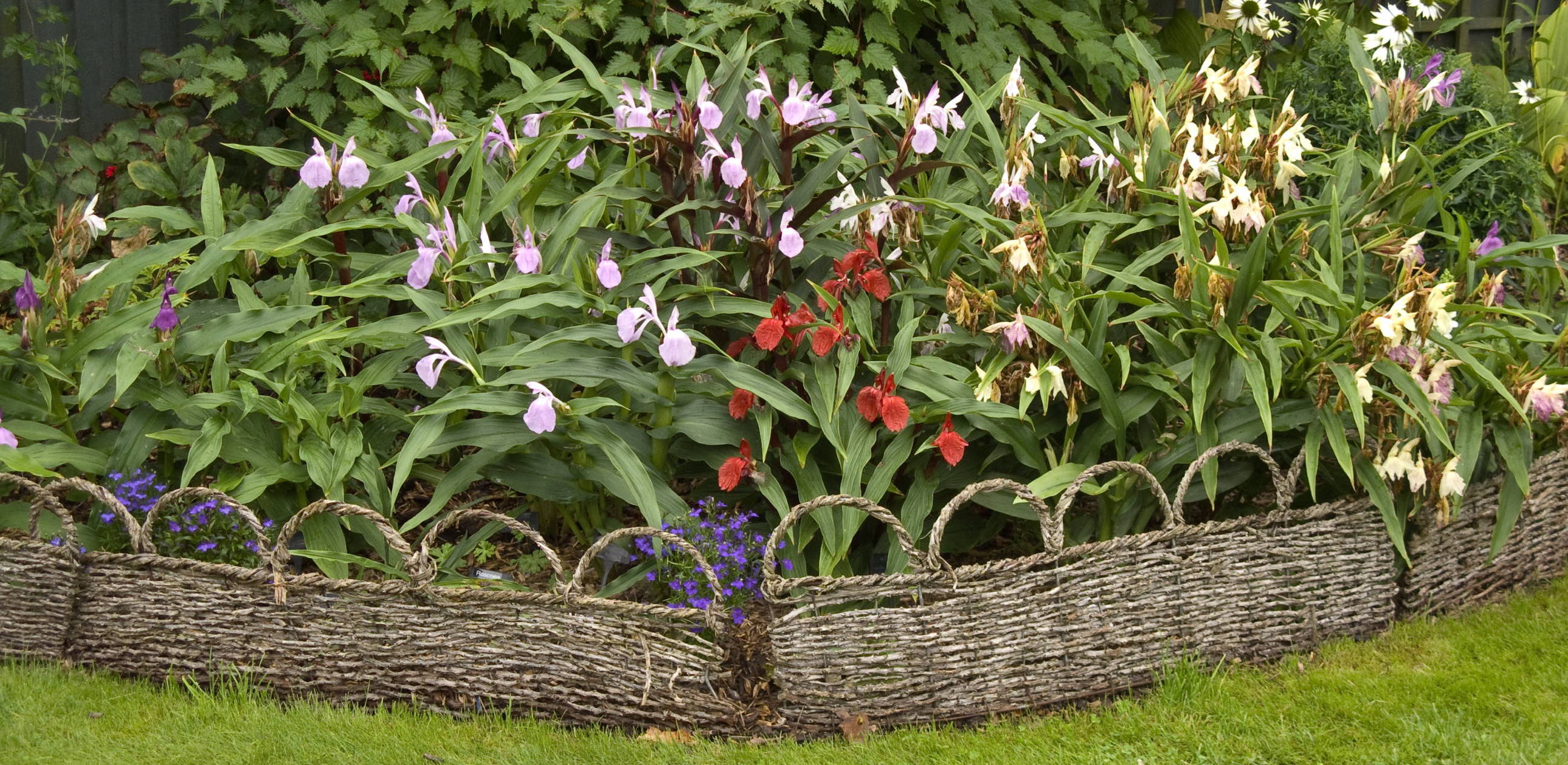 A collection of Roscoea species and hybrids, growing in the garden of Roland Bream, UK National Collection Holder, "Stevenshill", Harnage, Shropshire